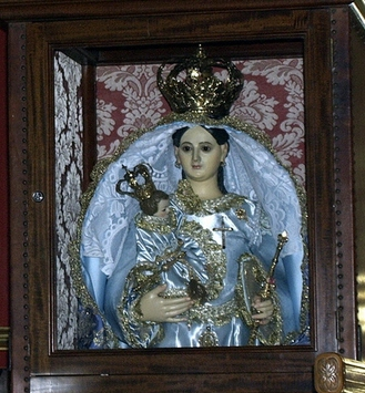 Virgen de los Reyes de El Hierro